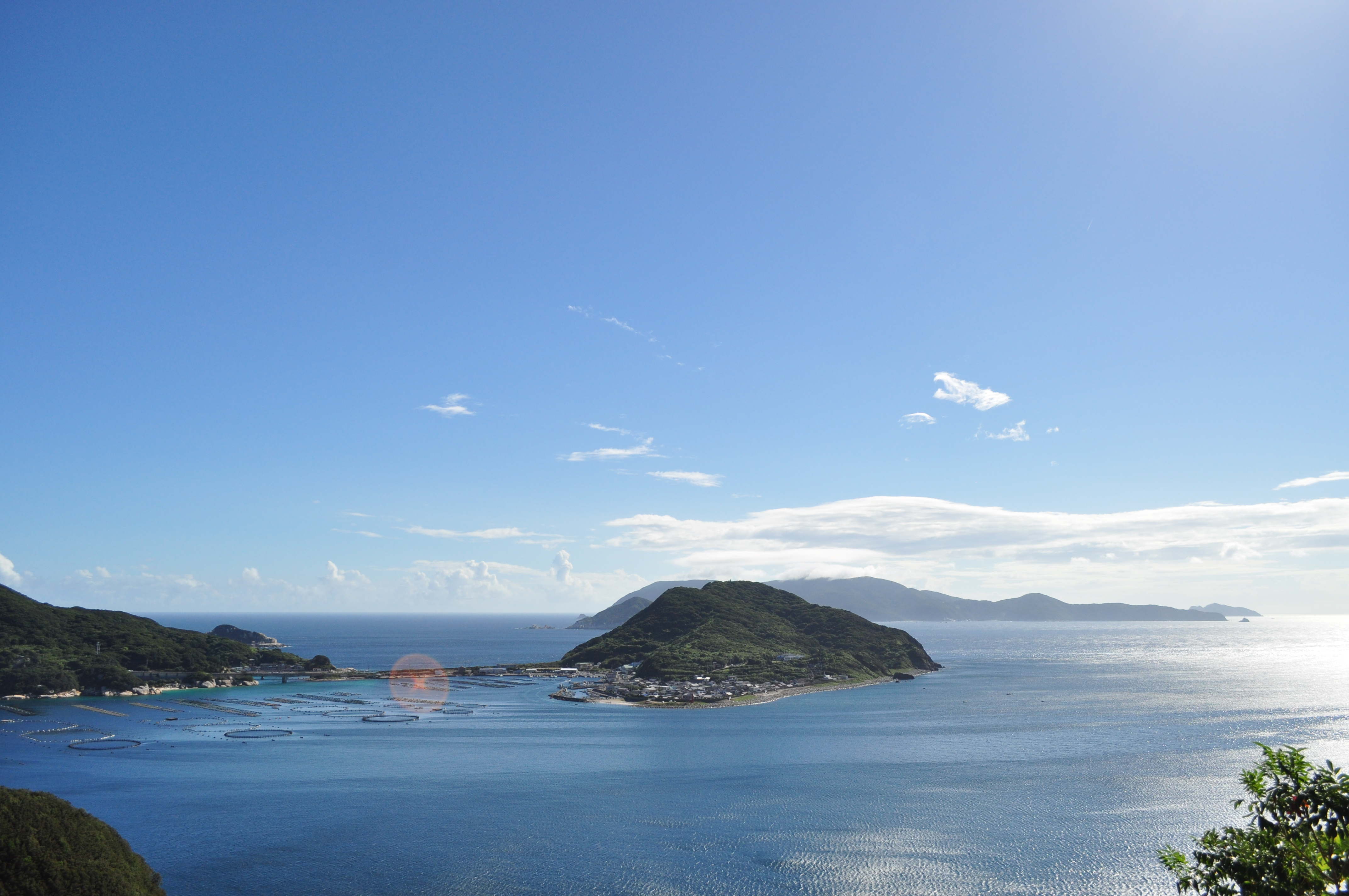 Kashiwajima Island (柏島）on a clear summer day, as viewed from a nearby observation deck. A few other islands also appear in the background.